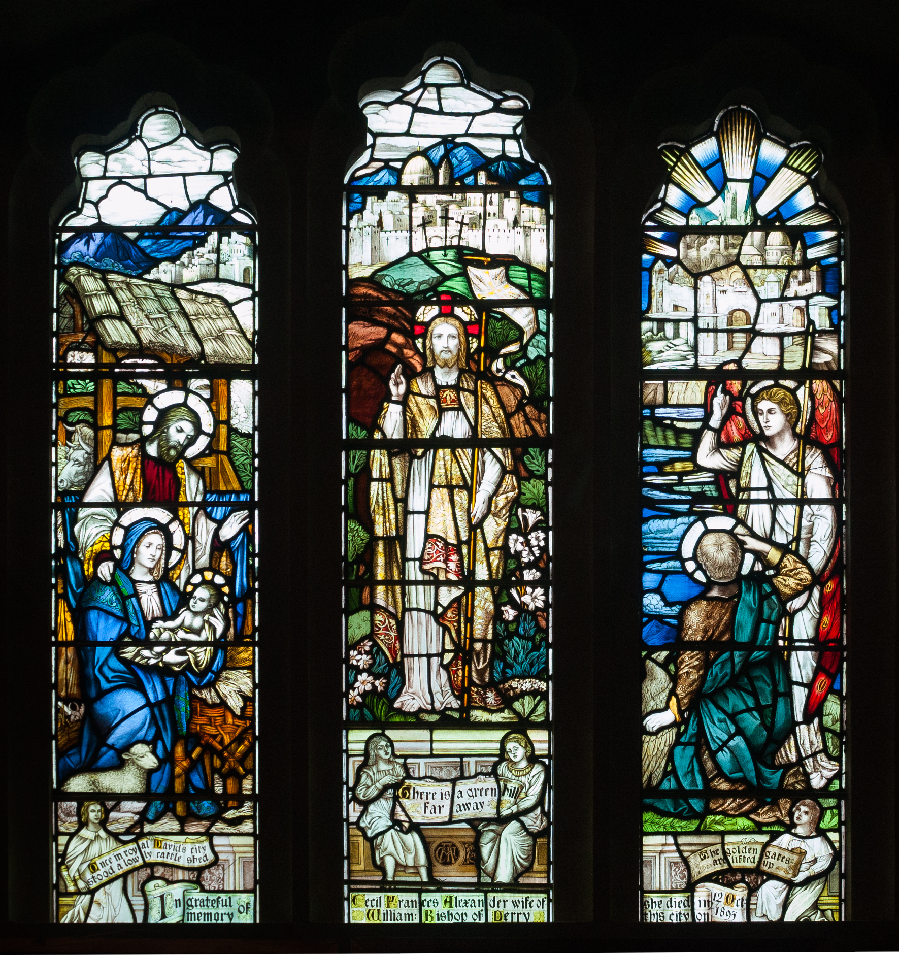 Window in the north vestibule in memory of the poet and hymn-writer Cecil Frances Alexander who died on 12 October 1895 in Derry. She was the wife of William Alexander, bishop of Derry. The three lights refer to three hymns written by her: The left light refers to “Once in Royal David's City” with the scene of the Nativity; the centre light refers to “There is a green hill far away” with Jesus Christ after he rose from the dead in front of the hill where he was crucified; the right light refers to “The Golden Gates Are Lifted Up” with the scene of the holy city, new Jerusalem, in heaven with open gates. The window was created by Powell and Sons and unveiled by the Right Rev. Bishop Montgomery, at a service held on 21 March 1913, along with a memorial window for her husband who died in 1911. (See Irish Times, 22 March 1913, p. 10; J. Godfrey F. Day and Henry E. Patton: The Cathedrals of the Church of Ireland, p. 36–37.)